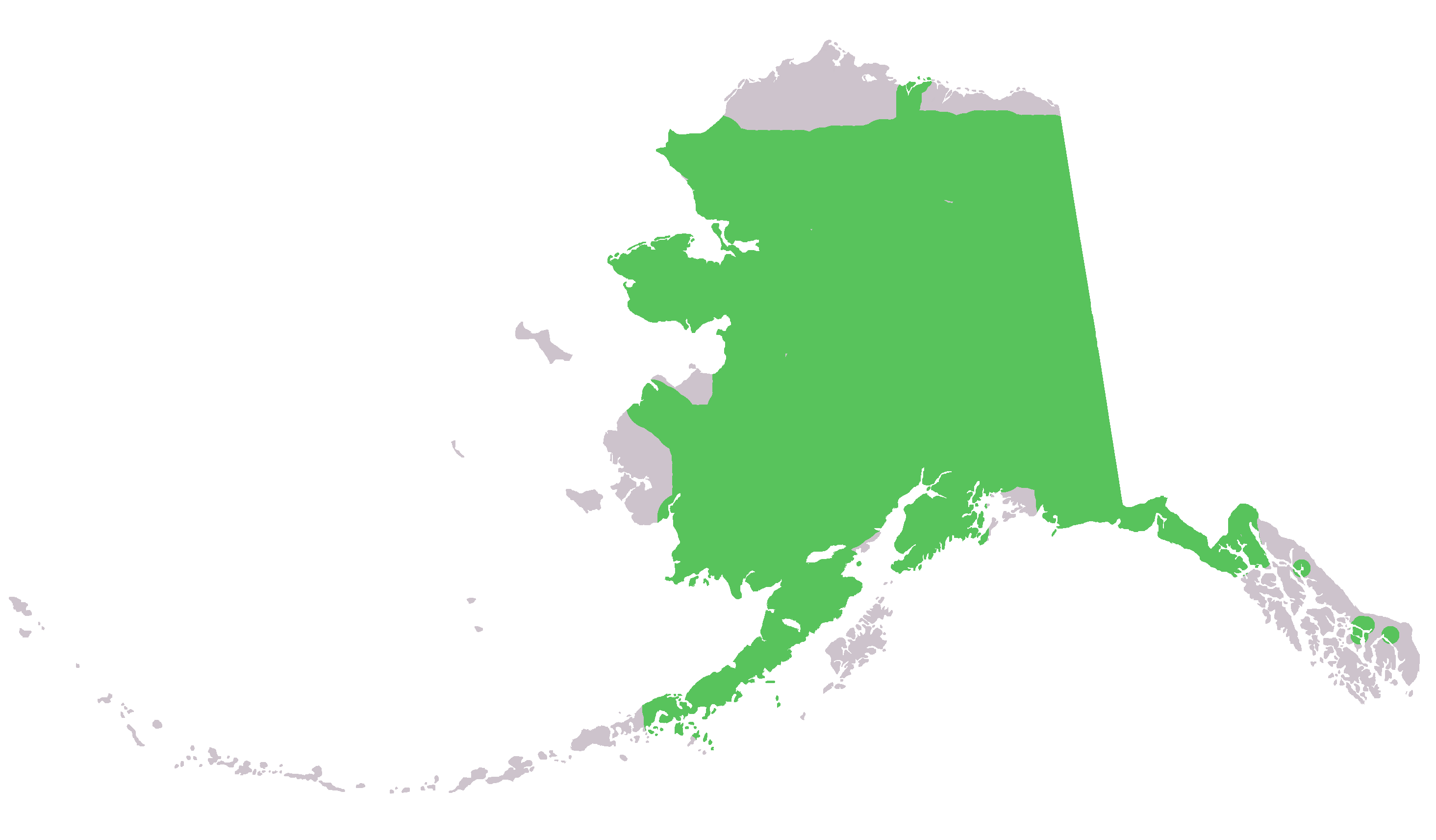 Range of Alces alces in Alaska